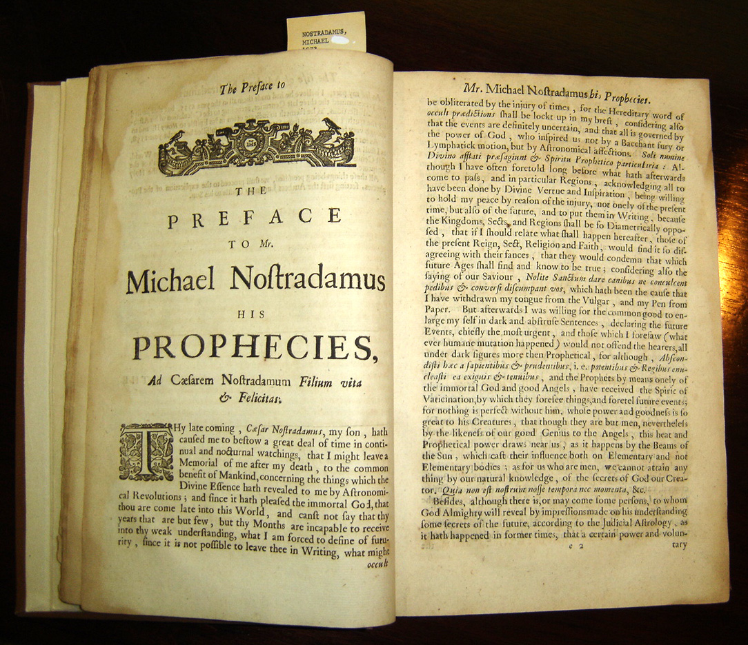 Copy of Garencières' 1672 English translation of the Prophecies (printed in London by Thomas Ratcliffe and Nathaniel Thompson; 1st English ed.), located in The P.I. Nixon Medical History Library of The University of Texas Health Science Center at San Antonio.